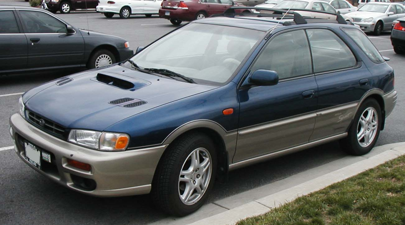 1998-2001 Subaru Impreza Outback Sport photographed in USA.